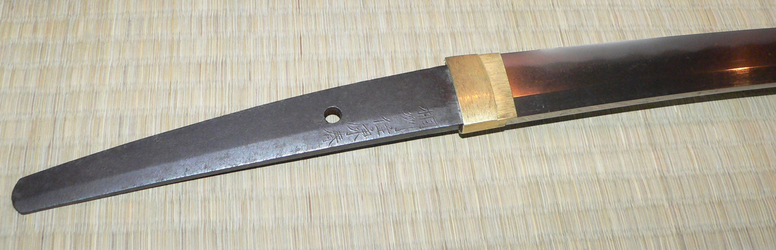 katana blade signed by Soshu Ju Yasuharu, Muromashi era, (16th century)